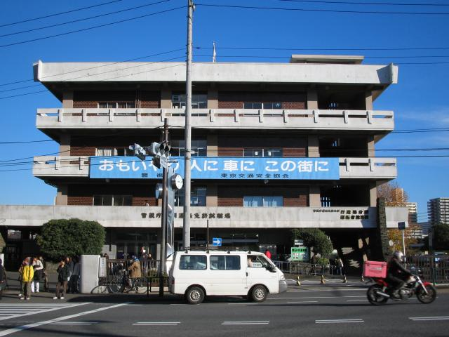 Photo of the driver's license test center at Samezu(Japan).